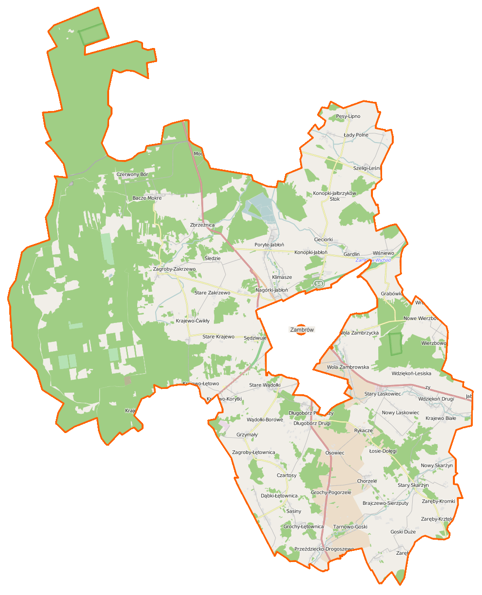 Map of Gmina Zambrów, Poland This map of Zambrów (gmina) was created from OpenStreetMap project data, collected by the community. This map may be incomplete, and may contain errors. Don't rely solely on it for navigation.